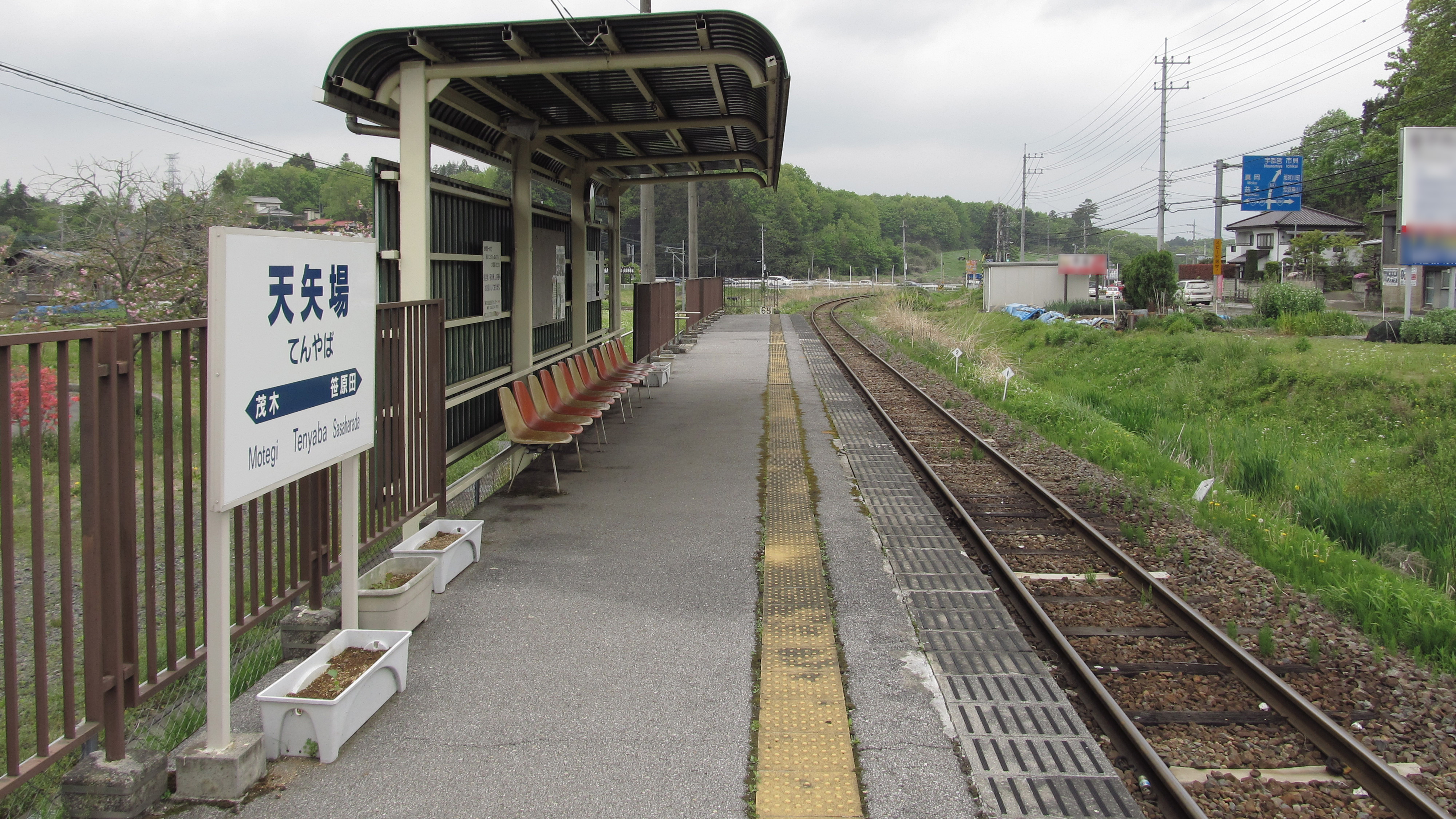 The platform at Ten'yaba Station on the Mooka Railway Mooka Line in the Motegi town, Tochigi prefecture, Japan